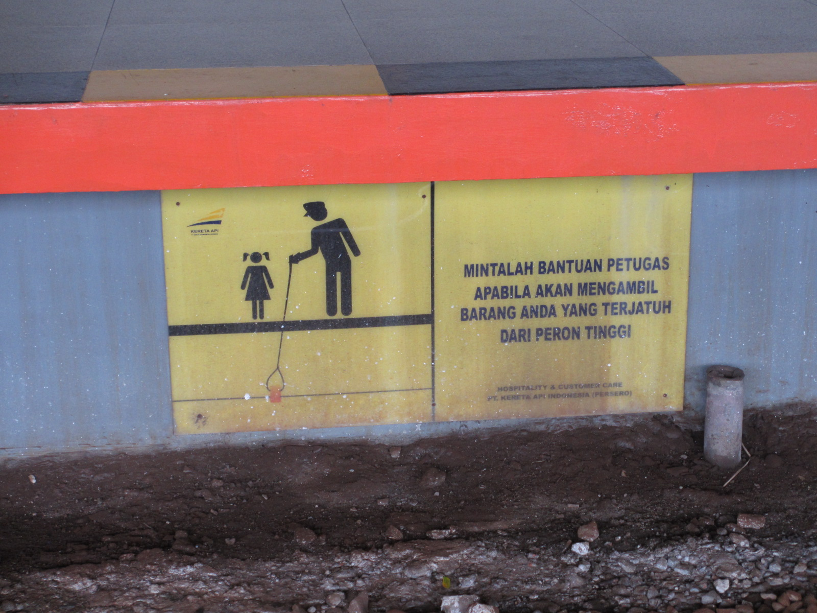 A typical warning sign on high railway platform in Indonesia. The text in the sign means: "Ask for the operator if you are going to take your belongings that is fallen from the high platform".